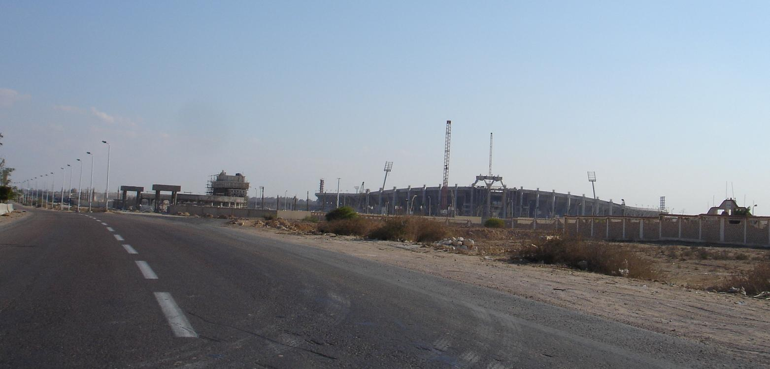 viewing the raw surrounding of the new city of Borg El Arab and it's stadium which was still under construction. 14th November 2005.